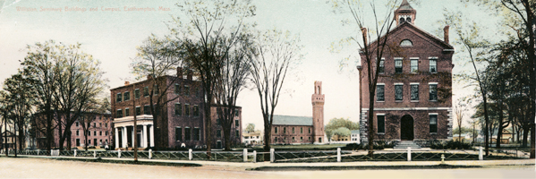 In 1841, The Williston Northampton School was etsablished. It's campus was originally built on Main Street in Easthampton before moving to its current location.